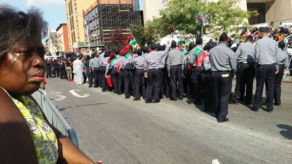 African American Day Parade, 2017 48th Annual African American Day Parade Photo by Linda Fletcher Dabo